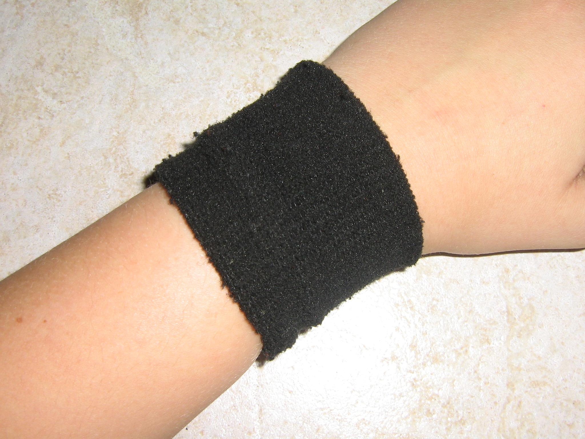 A sweatband (on my arm)